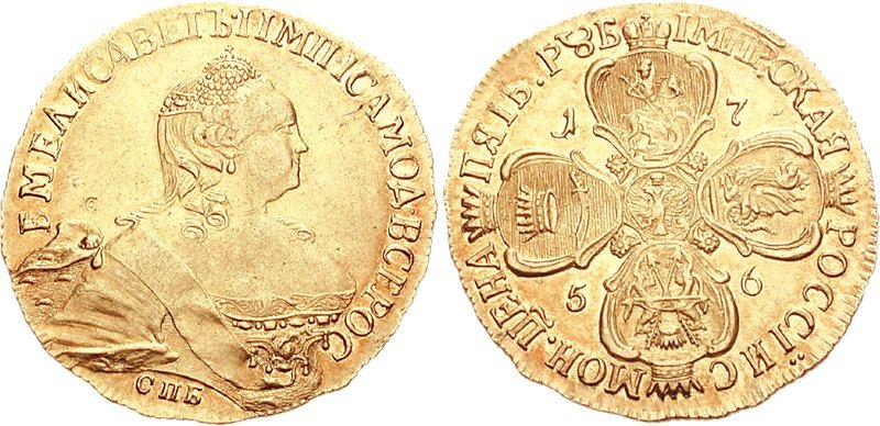 Russia, Tsars of Russia. Yelizaveta Petrovna (Elizabeth). 1741-1762. AV Imperial (5 Roubles) (8.18 g, 12h). Moskva (Moscow) mint. Dated 1756. БМ ЕЛИСАВЕТЪ•І•ІМП•І•САМОД•ВСЕРОС (By the grace of God, Elizabeth I. Emp(ress) and Autocrat of all Russia); mintmark in exergue (СПБ), crowned bust right; Åë on truncation ІМПР.СКАЯ РОССЇИ С МОН. ЦЕНА ПЯТЬ РУБ “Russian Empire, mon(ey) weight 5 rubles in Cyrillic, crowned cruciform coats-of-arms crowned cruciform coats-of-arms of Moskva, Kazan, Novosibirsk, and Astrkhan in ornate frames around central imperial Russian coat-of-arms; flowers at angles; 1–7–5–6 in voids. In an NGC slab graded AU 55, lightly toned. Rare. Small C countermark in left field of obverse. Ex Hutten-Czapski Collection with his collector’s mark.